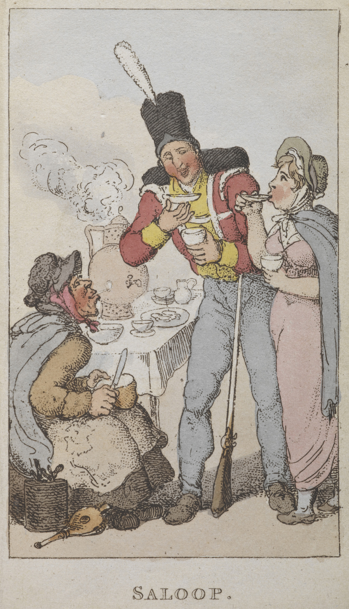 'Saloop', a popular beverage of the 18th century. Salop was served in coffee houses as an alternative to coffee or chocolate; and salop-vendors peddled the drink in the streets, or sold it from booths. In this picture a soldier is enjoying a cup.